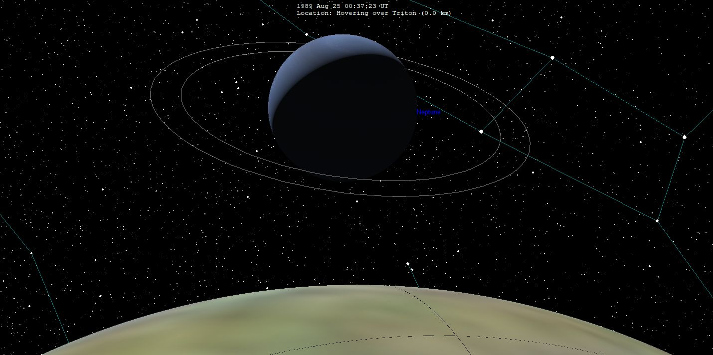 Simulated view of Neptune as seen from the surface of Triton.